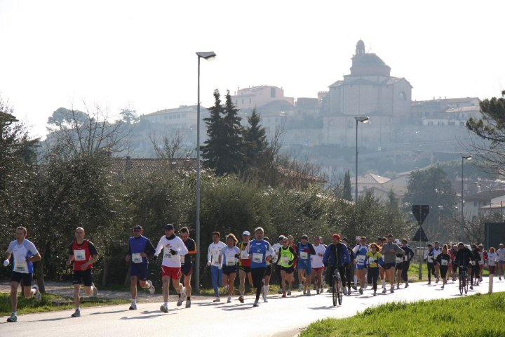 Strasimeno ultramaratona